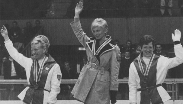 The podium after the Women's 10 kilometer cross-country ski race at the 1968 Grenoble Winter Olympics. From left to right: Berit Mørdre Lammedal, Norway (2nd), Toini Gustafsson, Sweden (1st) and Inger Aufles, Norway (3rd).